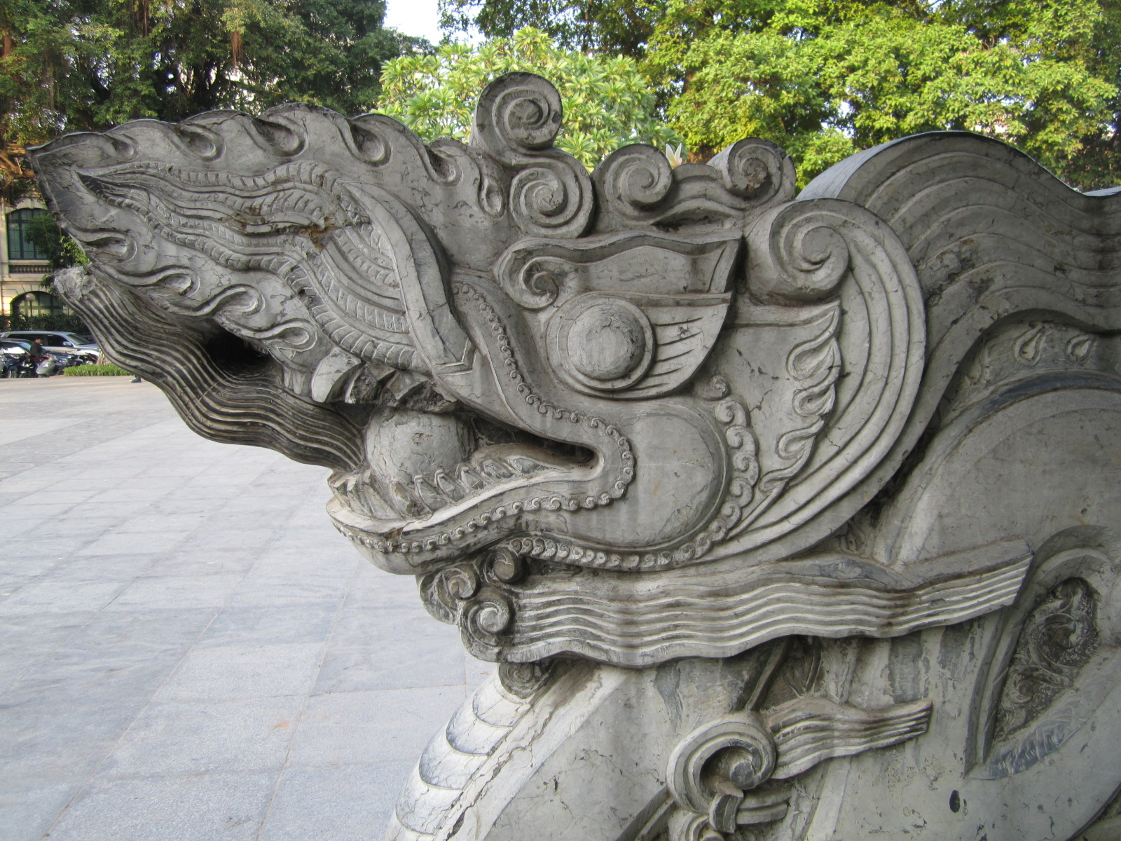 Modern dragon staircase built in the Ly Dynasty style, Hanoi